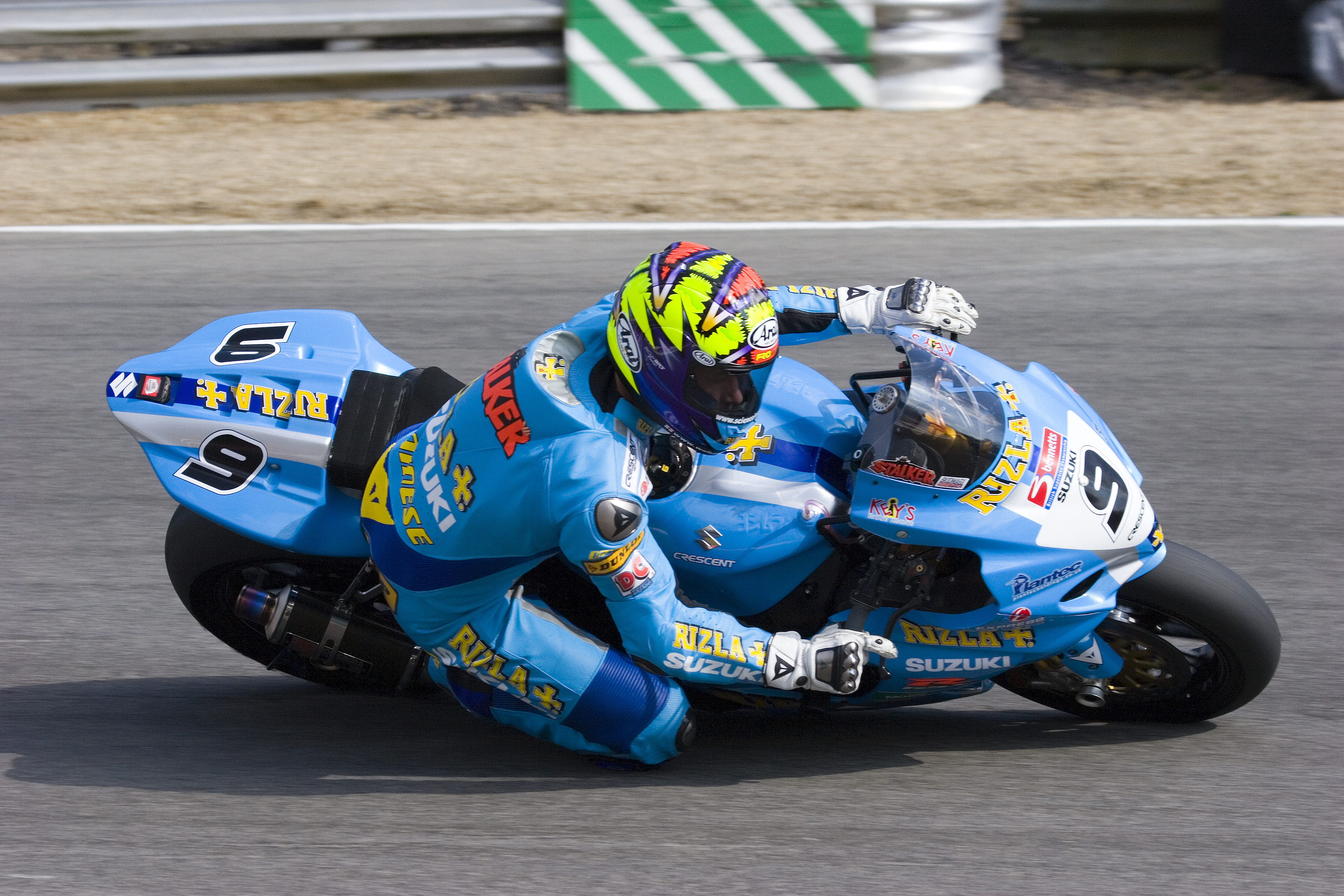 Chris Walker - British Superbikes 2007. Brands Hatch at Druids bend.